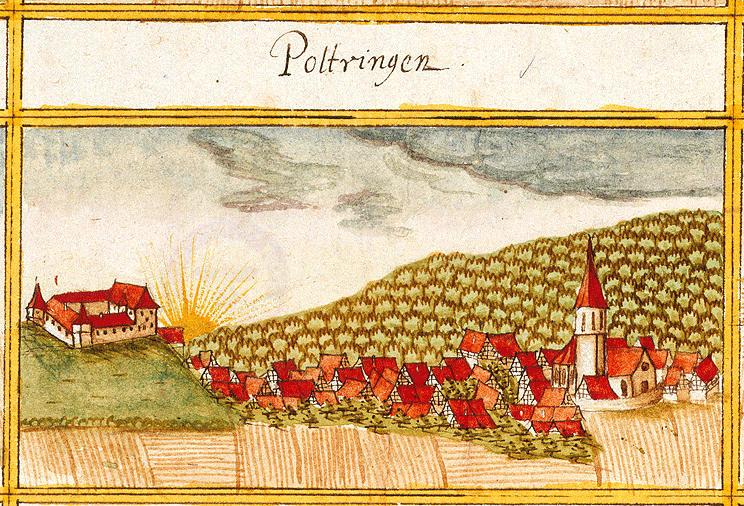 View of Poltringen, Ammerbuch, from the forest register books created by Andreas Kieser